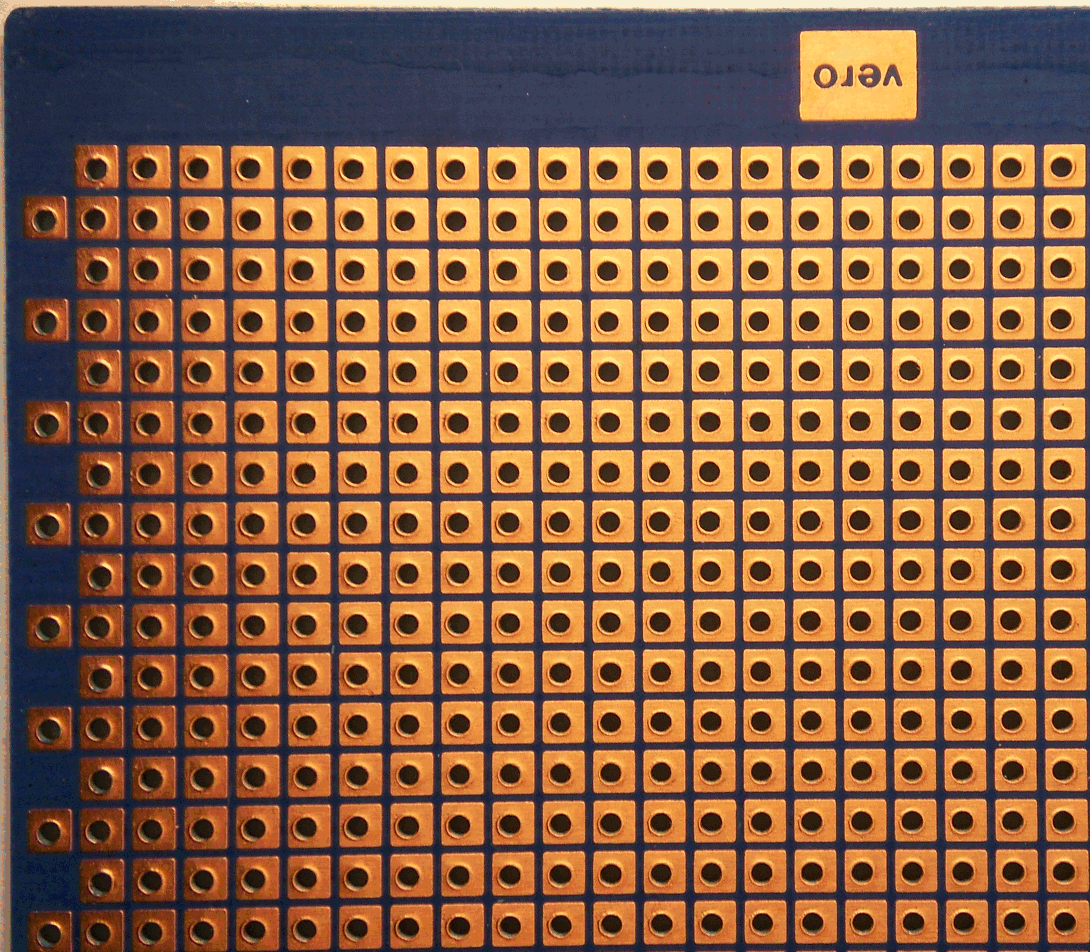 Front of an empty copper clad perforated board with an RF substrate( Perfboard )